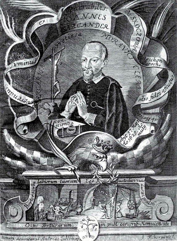 Martyr John Sarkander.